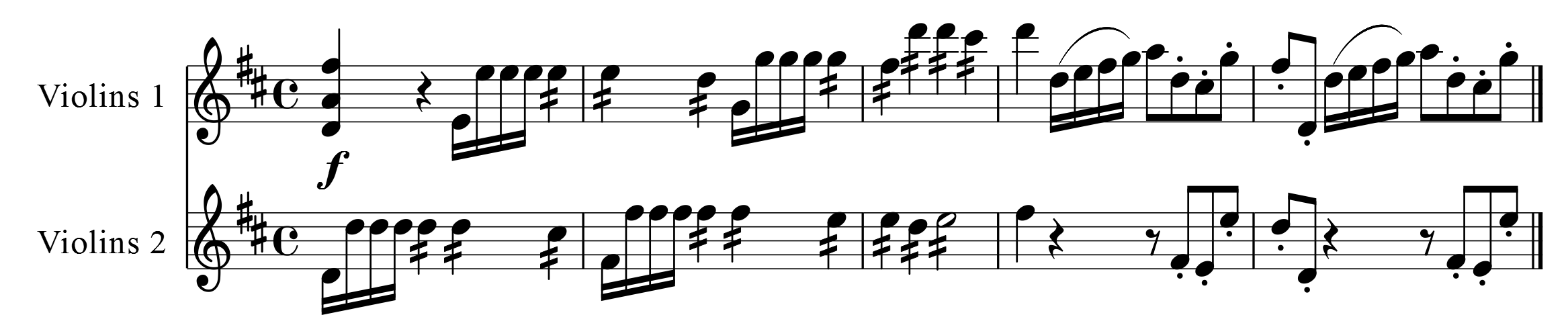 Joseph Haydn, Symphony No 15, first movement, Presto, bar 34-38